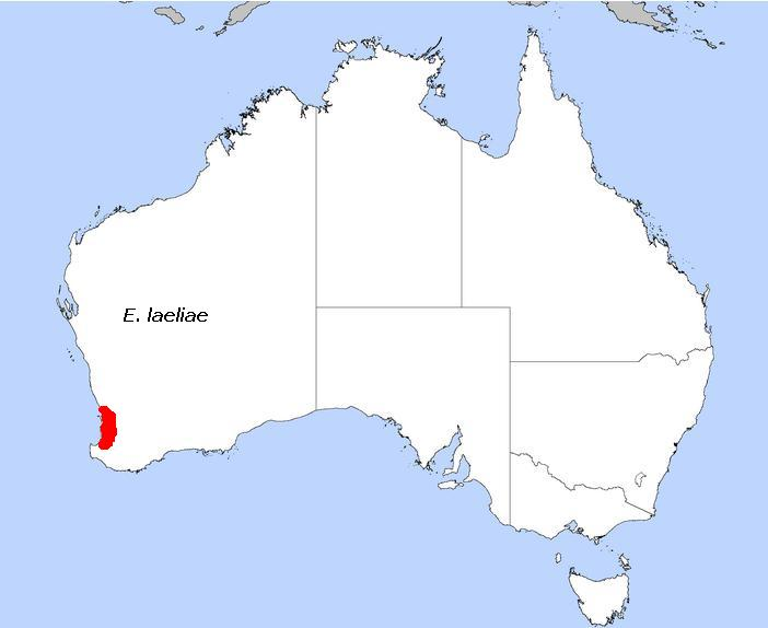 Range map in Australia for the E. laeliae Eucalyptus tree.